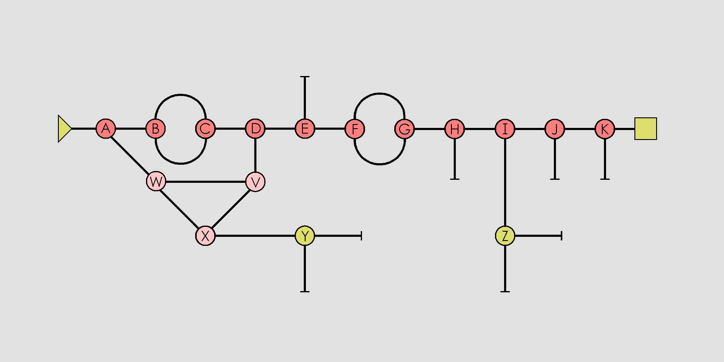 Barcelona Parc del Laberint: straight line diagram (linearized structure of paths and nodes) in the hedge maze.